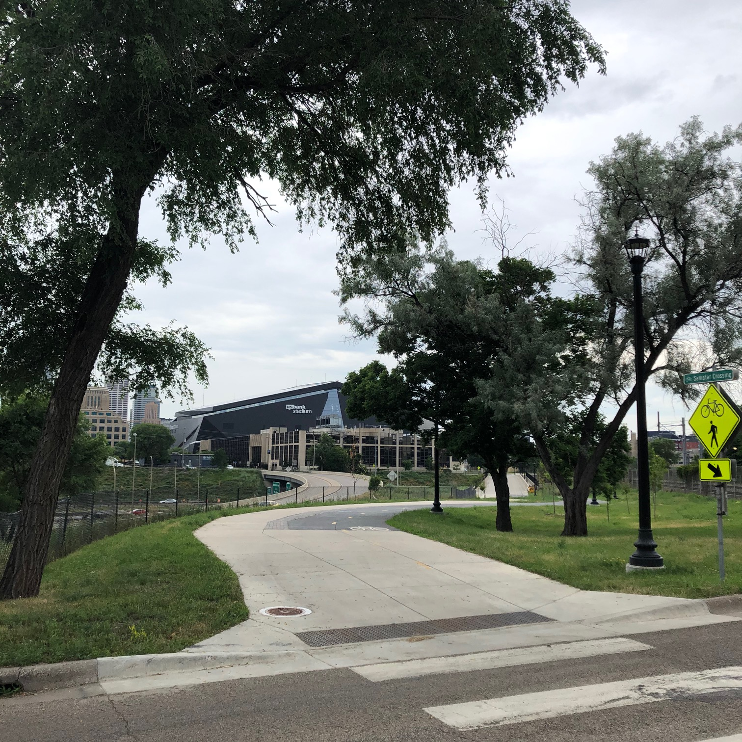 A shared-use pathway for bicycles and pedestrians extends across a highway overpass to downtown Minneapolis, Minnesota, United States, June 2020.